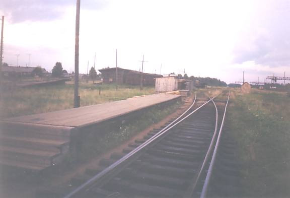 Gremyachiy, Totemsky District, Vologda Oblast